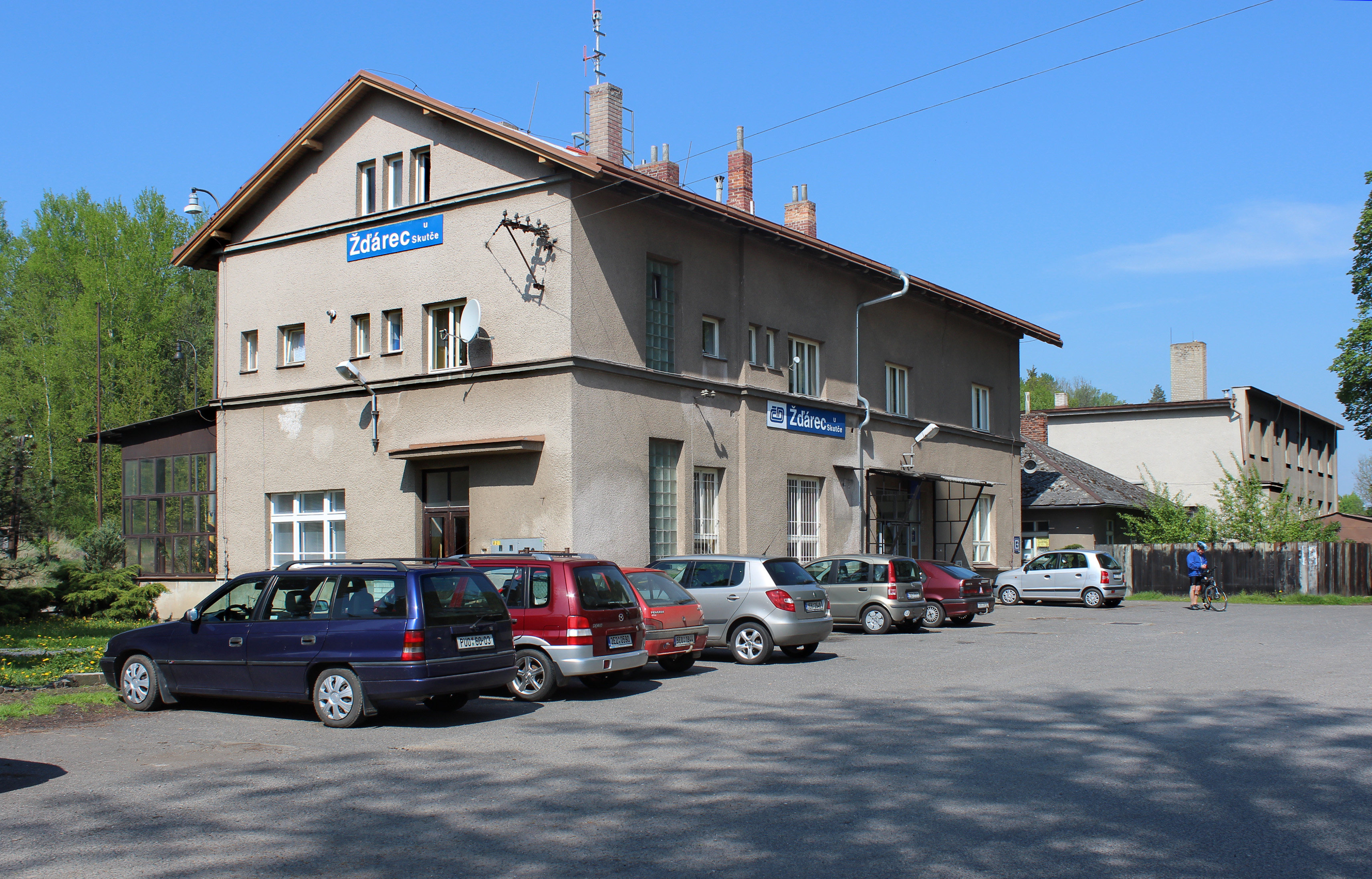 Train station in Žďárec u Skutče, part of Skuteč town, Czech Republic